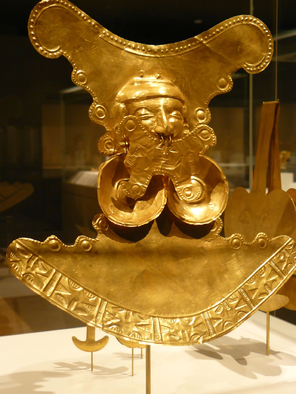 Photographed at the Metropolitan Museum of Art in New York City, New York. Pectoral Cultura Yotoco, 0-700 ddC, oro martillado, Region Yotoco, Valle del Cauca ColombiaPectoral Ornament Colombia Yotoco (Calima) 1st-7th century CE Hammered Gold